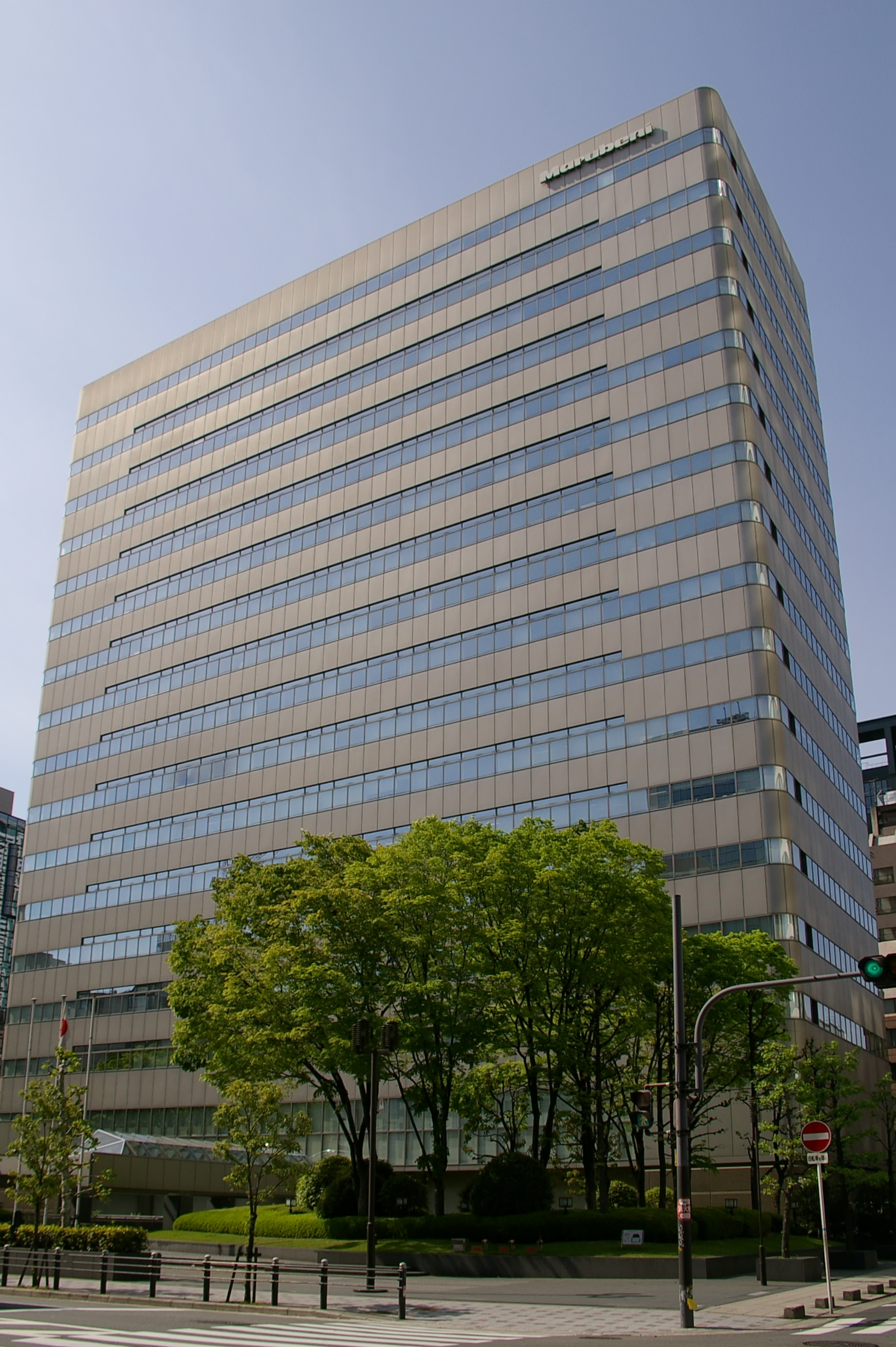 Photograph of Osaka head office of Marubeni Corporation in Chuo-ku, Osaka, Osaka Prefecture, Japan.